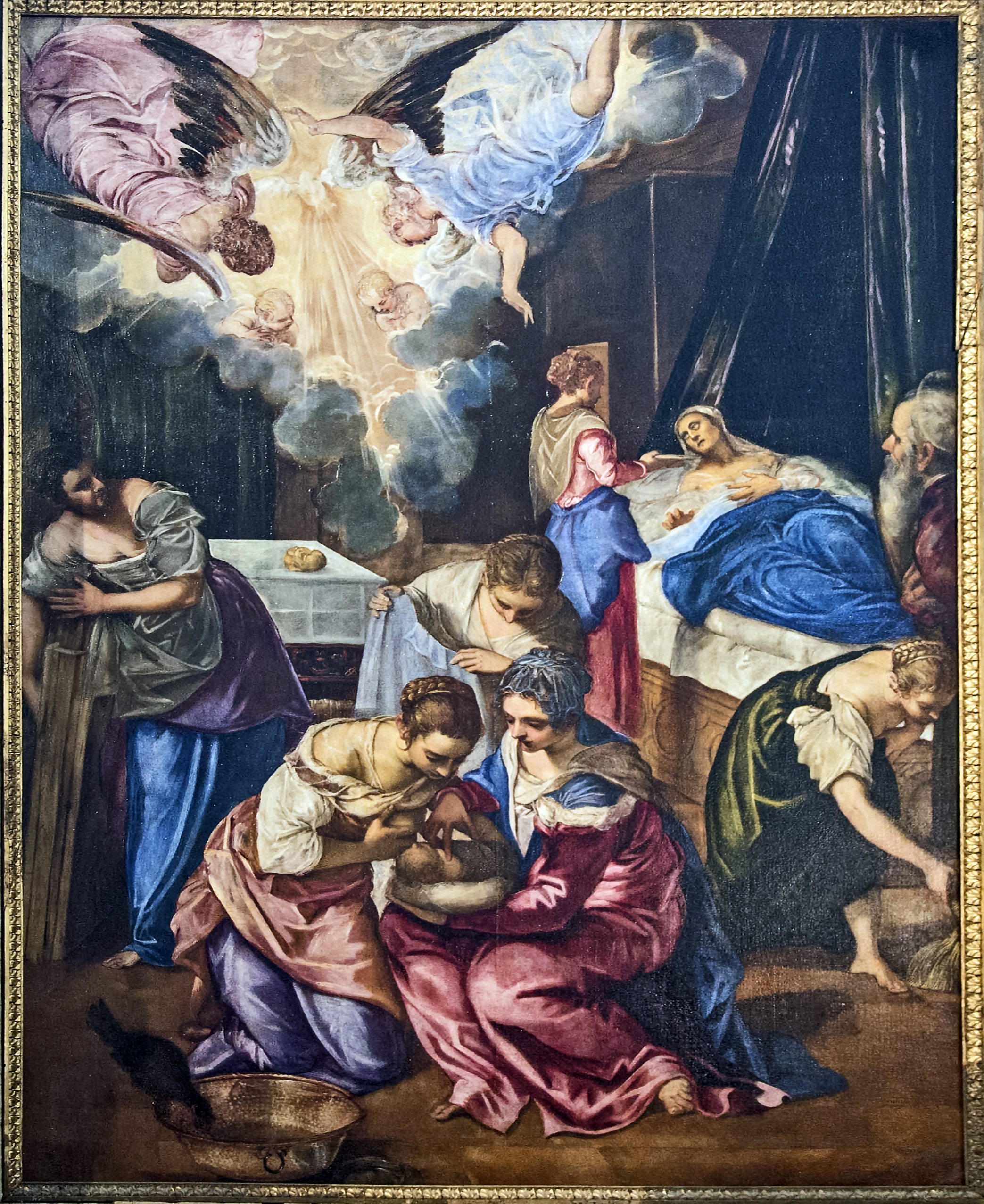 Church of San Zaccaria Venice - Sant’Atanasio chapel - Birth of St. John the Baptist (1563 circa) by Tintoretto; Oil painting on canvas 270x204 cm.